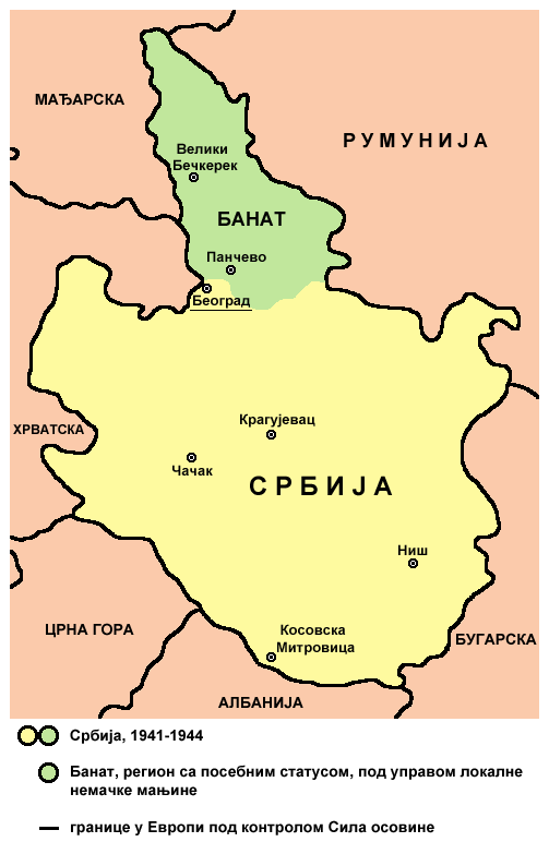 Serbia and Banat, 1941-1944. (Serbian language version)